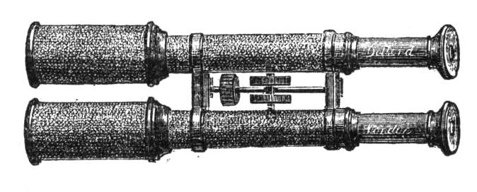 Gallilean or aprismatic binoculars from a Dollond advertisement